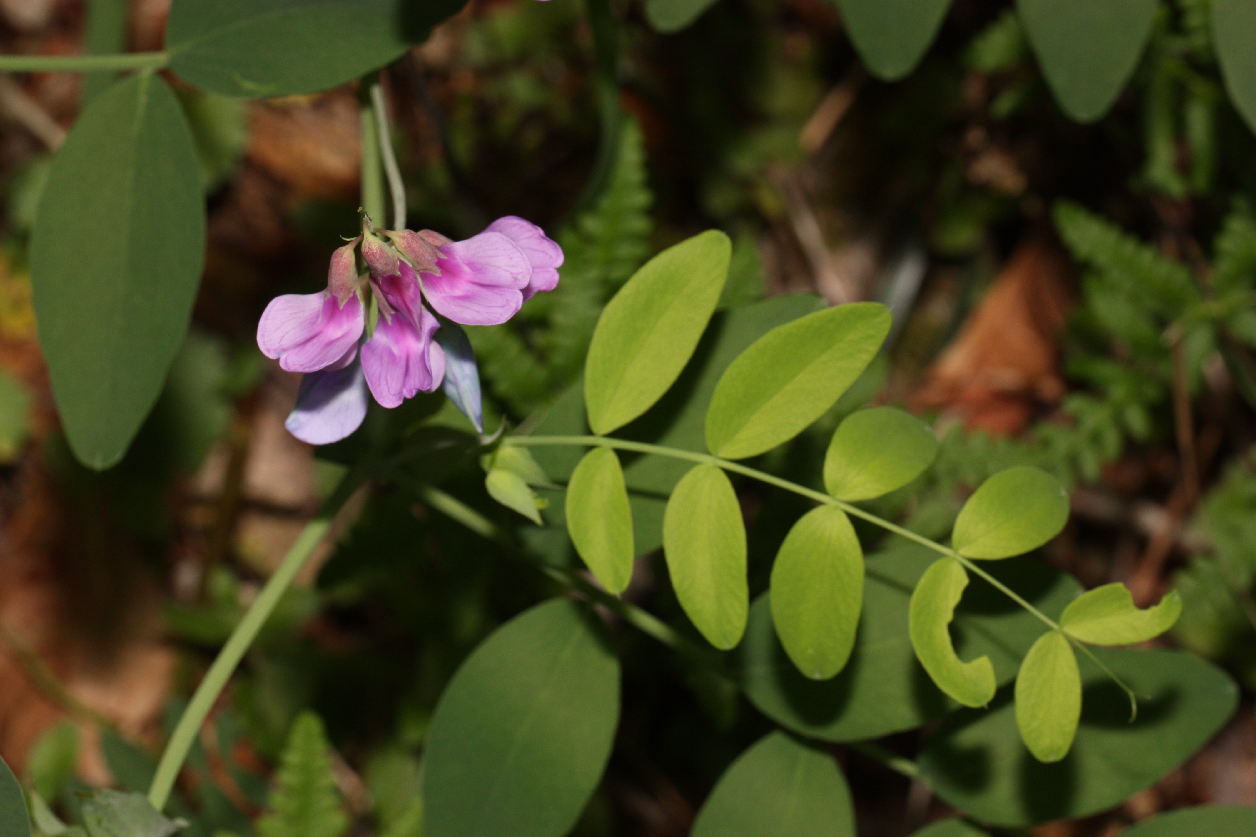 Leafy Pea Viewpoint location: Galice Road (BLM 34-8-13) at Smith Gulch Rogue Wild and Scenic River Viewpoint elevation: 242 meter (793 ft) Location source: Garmin GPSmap 60CSx Location Datum: WGS84